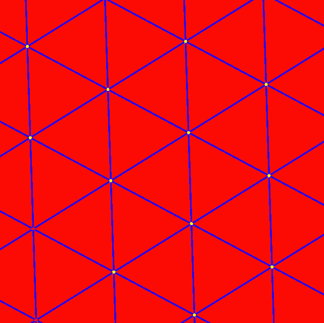 triangular tiling constructed by KaleidoTile, Topology and Geometry Software, Jeff Weeks